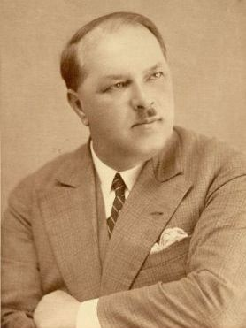 Emil Adamič (1877-1936), Slovene composer and conductor